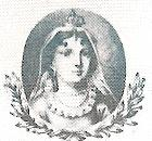 Aldona Anna